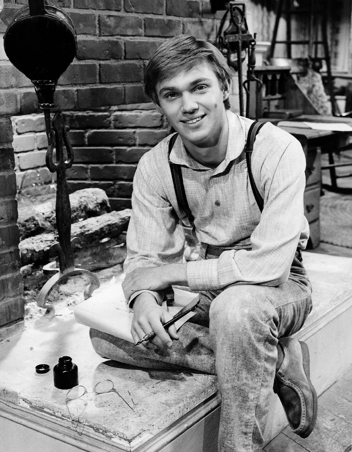 Richard Thomas as John-Boy Walton from the television program The Waltons.